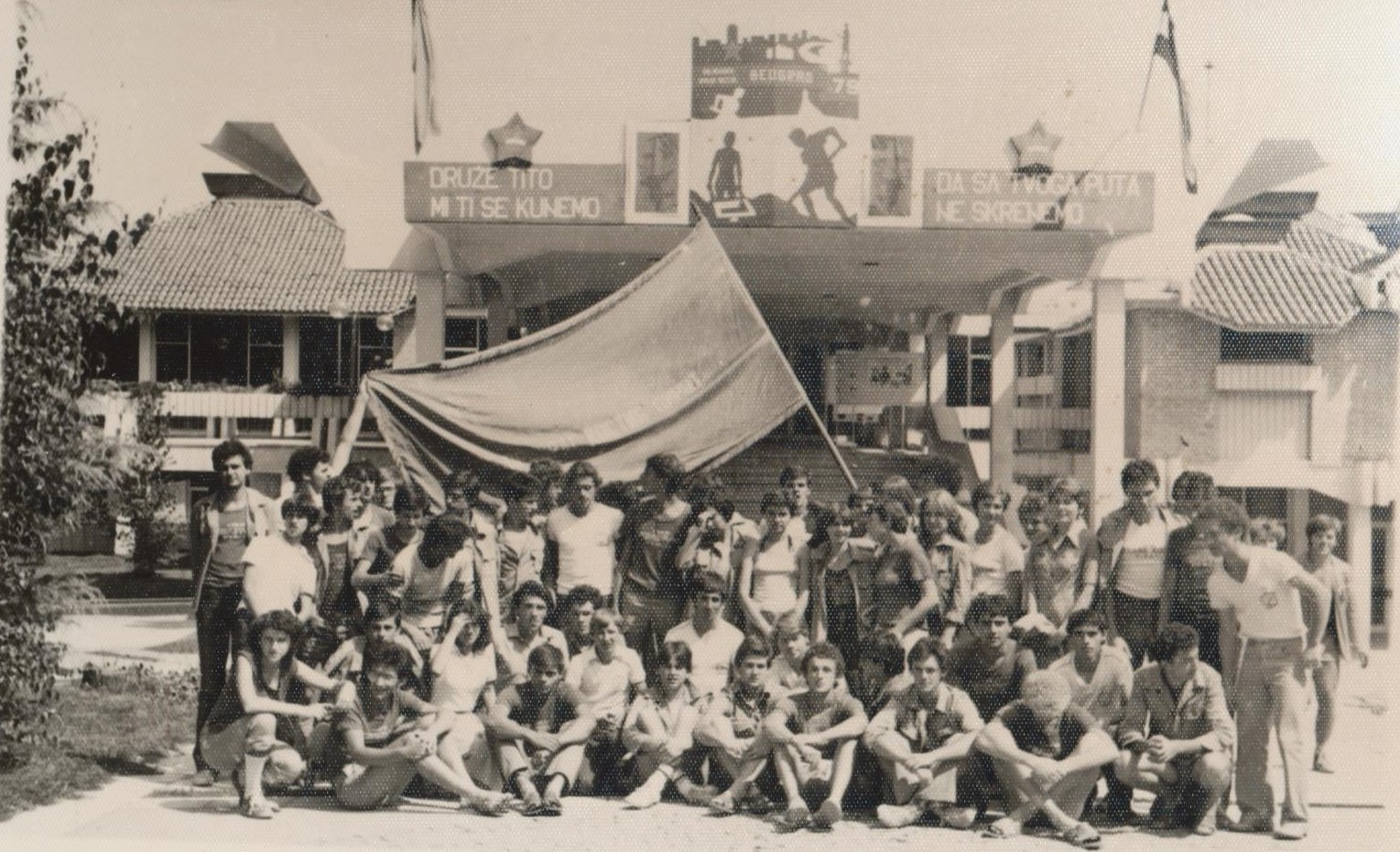 Pupils of Pirot's gimnasium in Belgrade, 1979